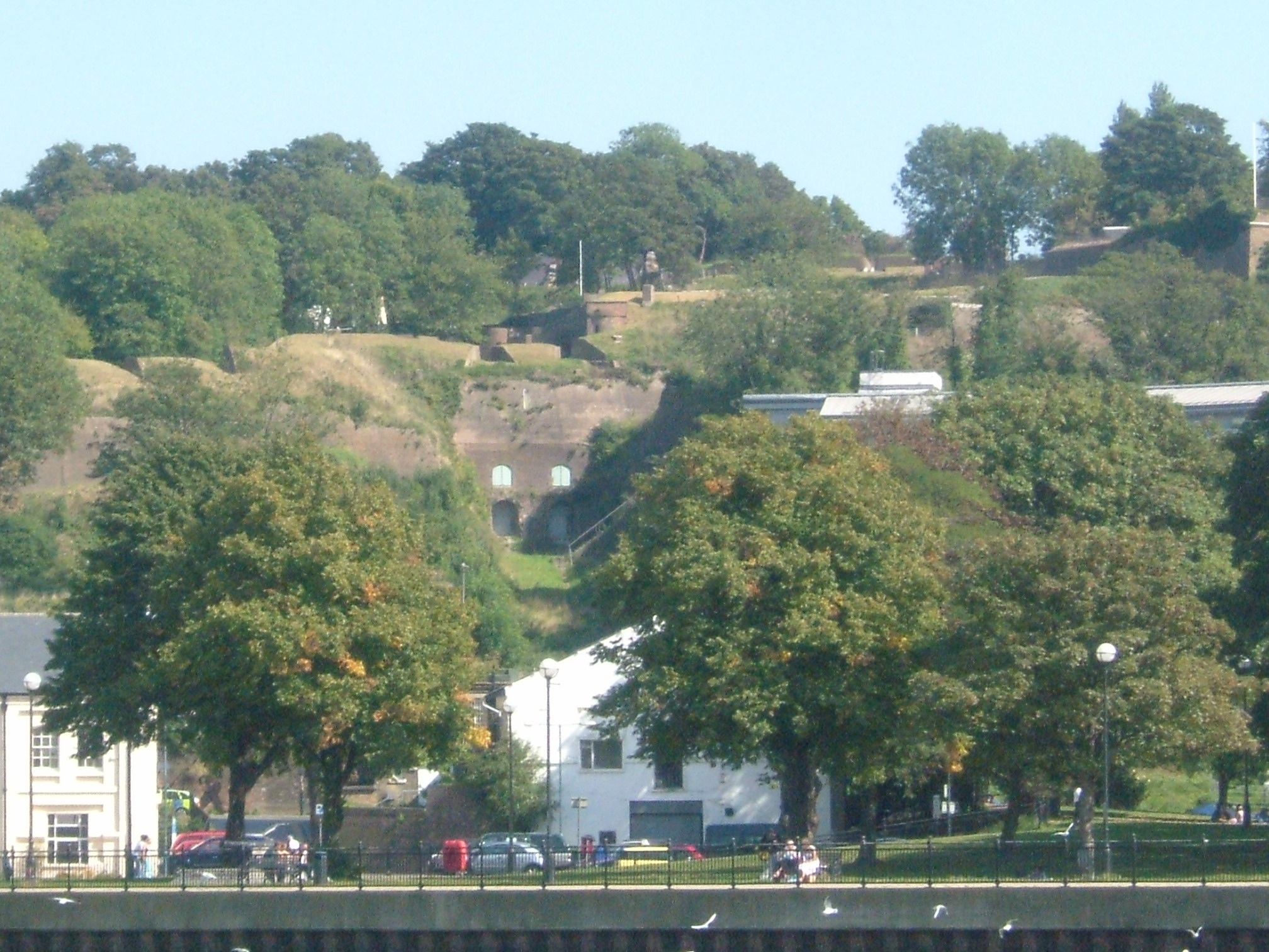 Chatham lies on the outside arc of the tidal River Medway. Upstream is Rochester and downstream is Chatham Dockyard. Fort Amherst. Looking up the Great Barrier ditch towards the Lower Gun Floor, Upper Gun Floor and Upper Barrier Battery. To the top right is the Belvedere Battery. To the left on Gun Wharf is Chatham Library. - Google Maps - Google Earth